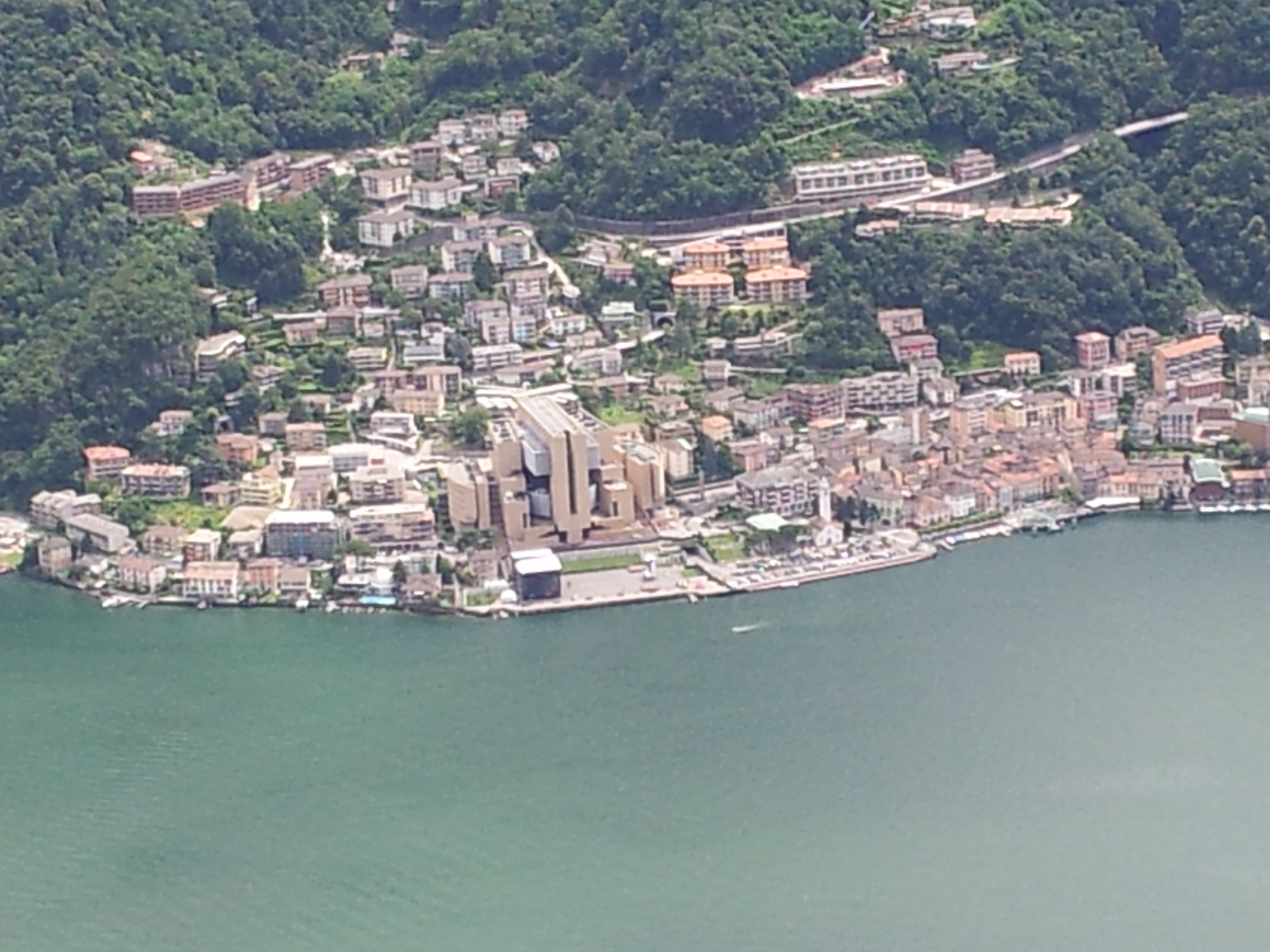 Campione d'Italia, as seen from Monte San Salvatore across the Lake Lugano.